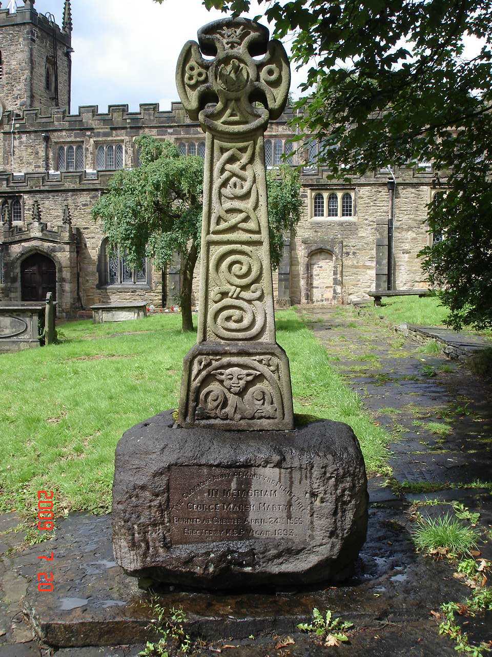 Monument to Protestant martyr George Marsh in St Mary, Deane churchyard, Bolton